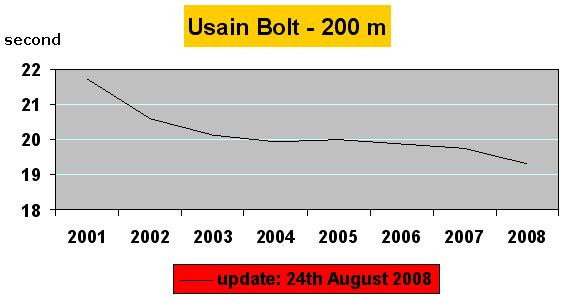 Usain Bolt - progress (200 m)